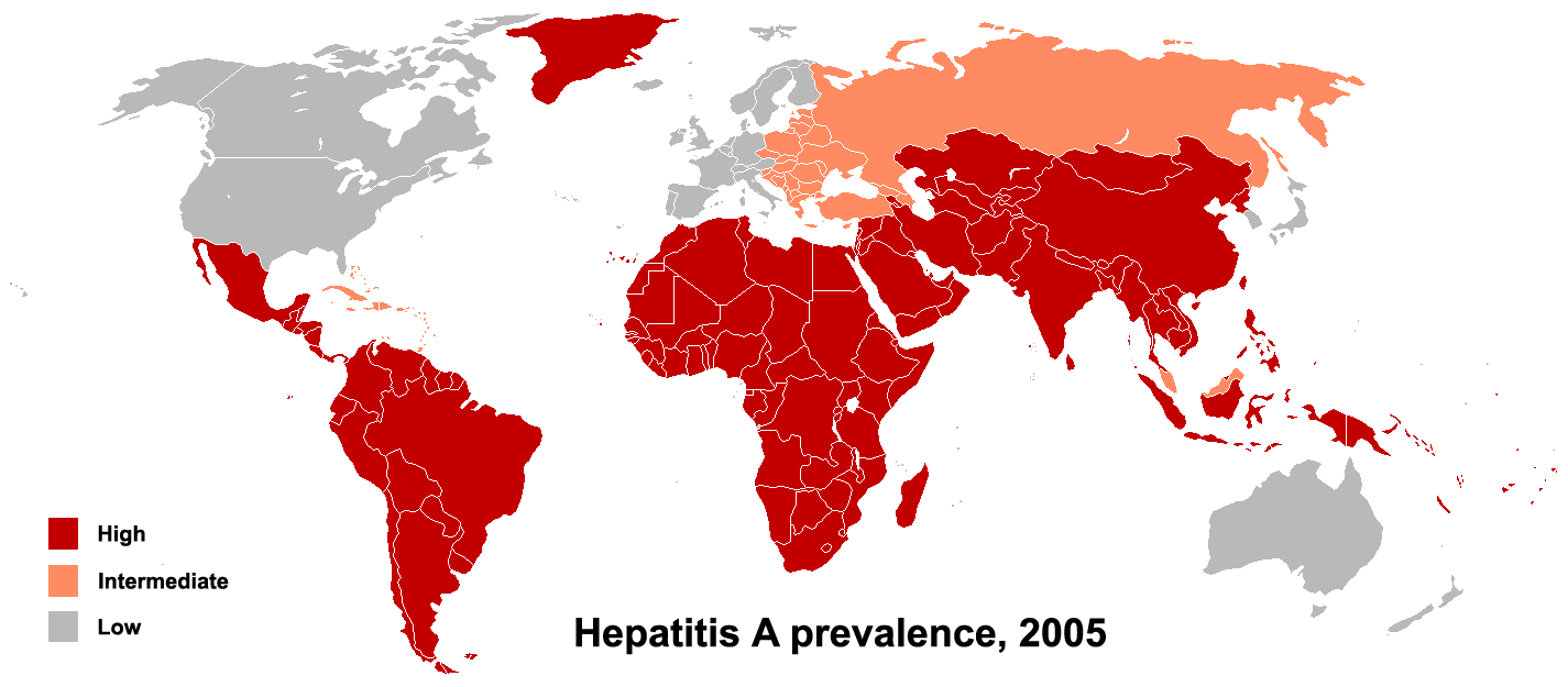 Geographic distribution of Hepatitis A prevalence (Anti-HAV-Antibody), 2005